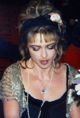 Helena Bonham Carter at the 2005 Toronto International Film Festival promoting Curse of the Wererabbit.